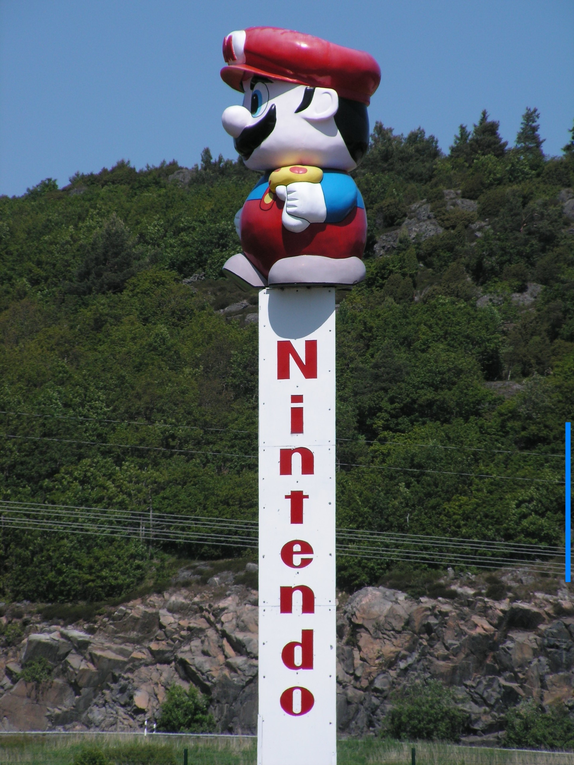 Statue of Super Mario at the Swedish Nintendo headquarters in Kungsbacka, Sweden.